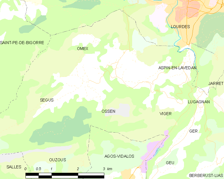 Map of French municipality